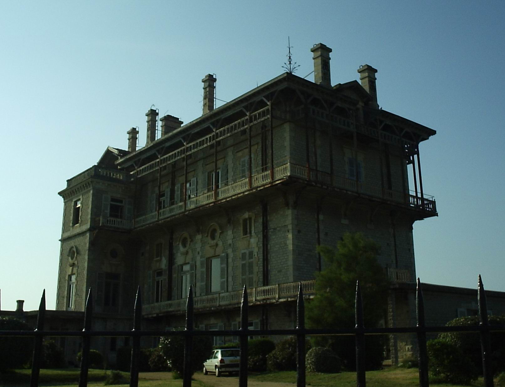 Author : Sebb Date : 07/2006